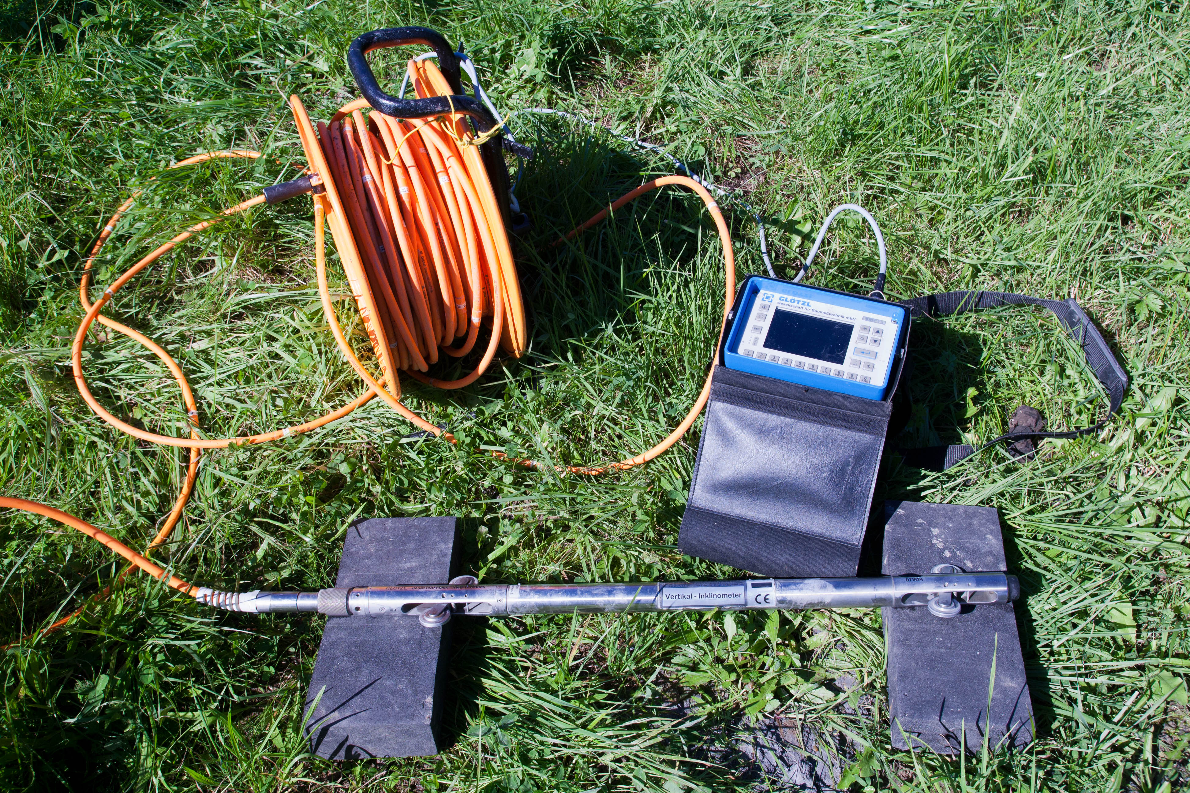 Vertical inclinometer for measuring horizontal subsurface deformation in a borehole.